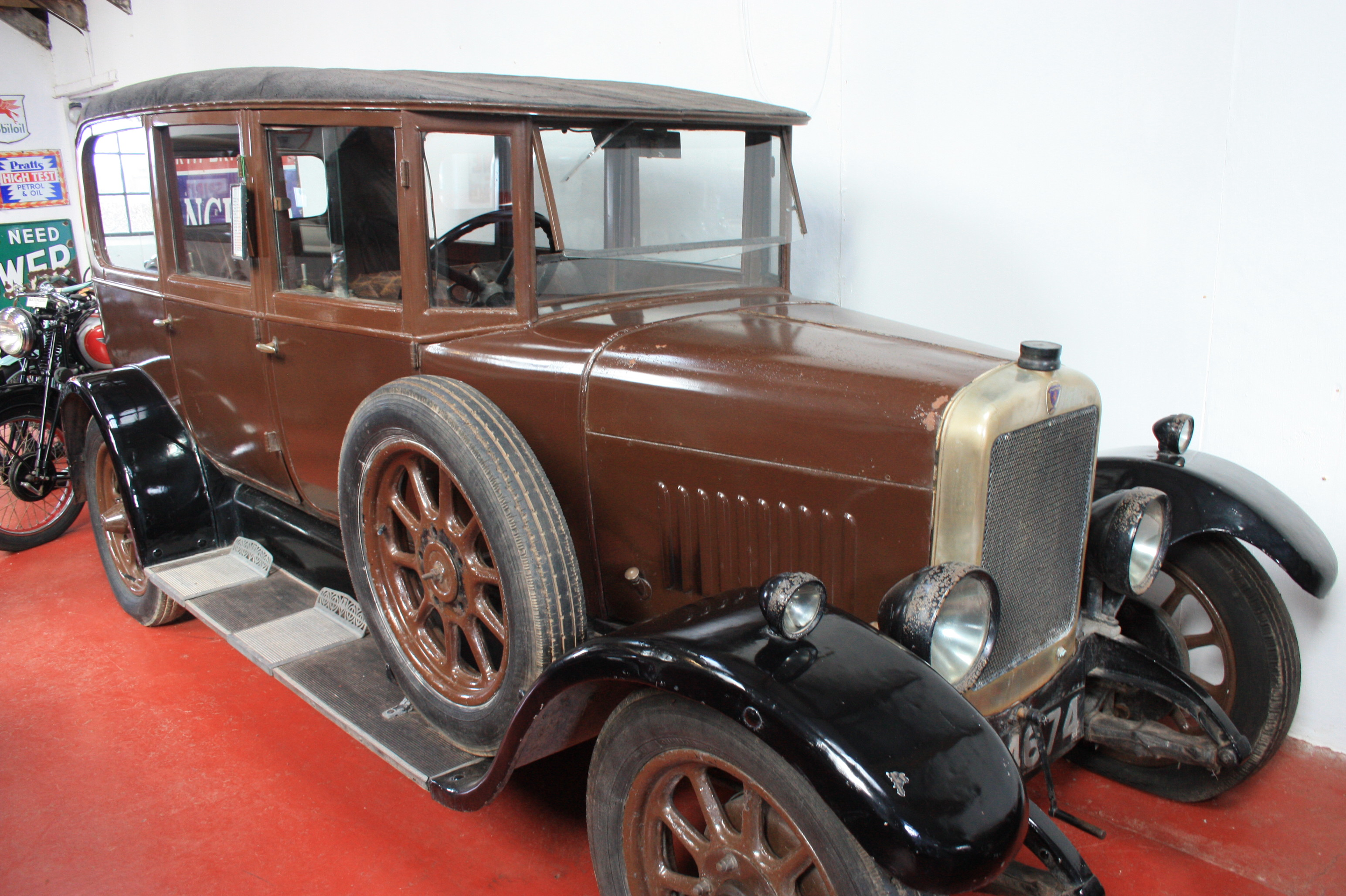 Dr Snoddie's 1927 Galloway from "Dr Finlays Casebook"